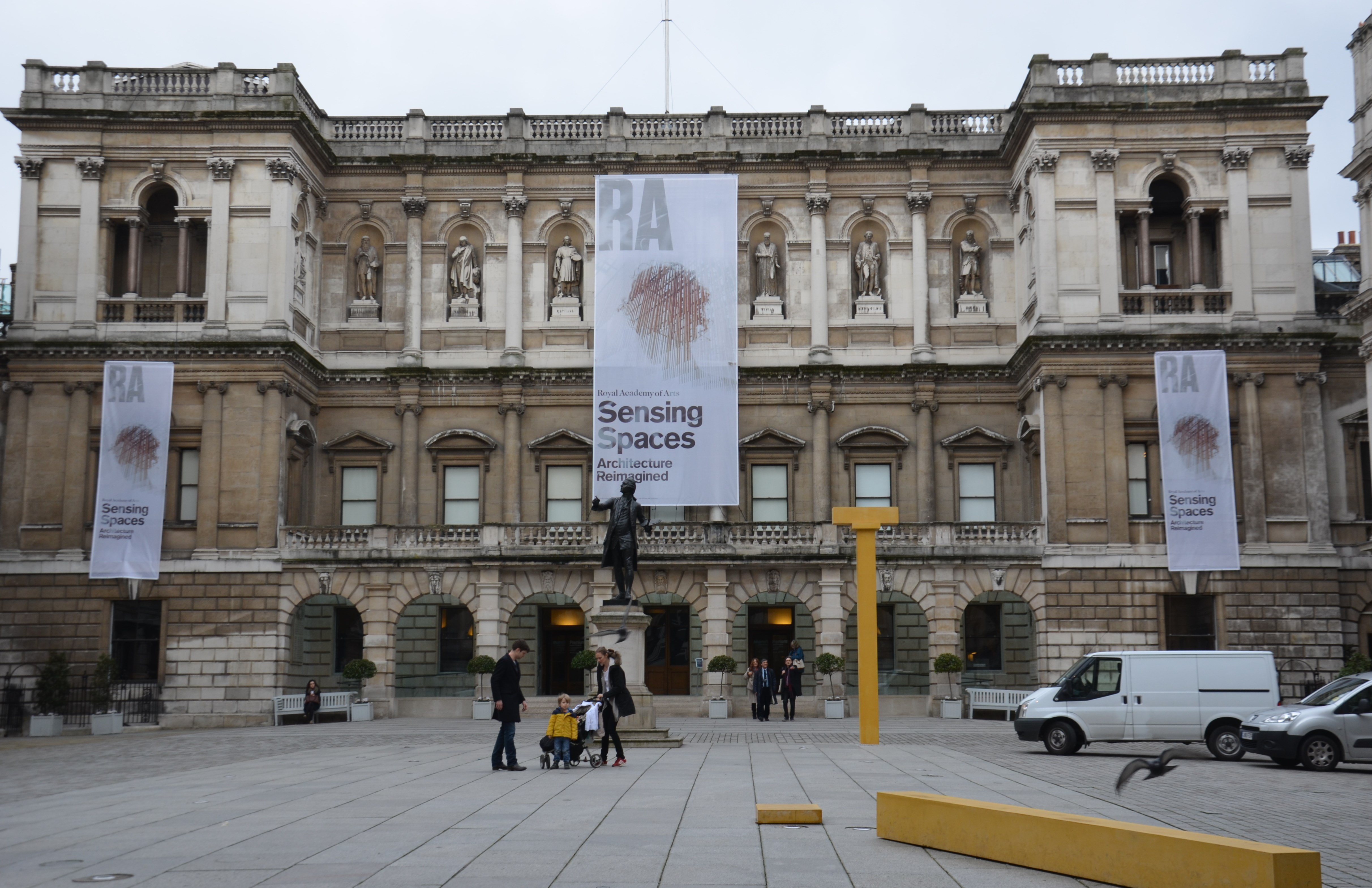 Burlington House, Royal Academy of Arts, London